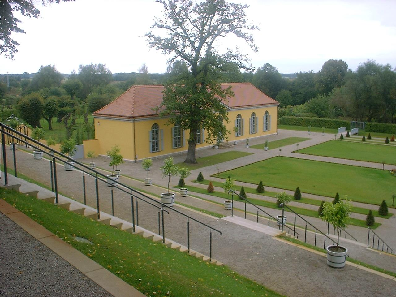 Baroque garden in Neuzelle in Brandenburg, Germany